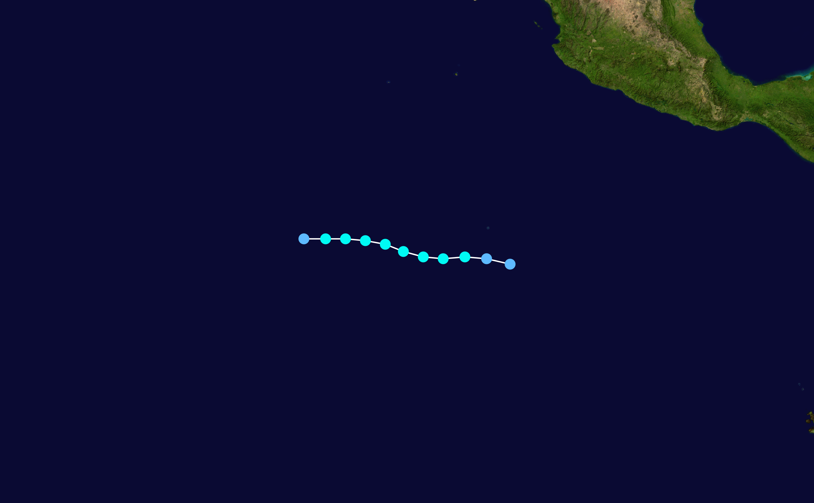 Track map of Tropical Storm Polo of the 2008 Pacific hurricane season. The points show the location of the storm at 6-hour intervals. The colour represents the storm's maximum sustained wind speeds as classified in the Saffir–Simpson scale (see below), and the shape of the data points represent the nature of the storm, according to the legend below. Saffir–Simpson scale Tropical depression≤38 mph≤62 km/h Category 3111–129 mph178–208 km/h Tropical storm39–73 mph63–118 km/h Category 4130–156 mph209–251 km/h Category 174–95 mph119–153 km/h Category 5≥157 mph≥252 km/h Category 296–110 mph154–177 km/h Unknown Storm type Tropical cyclone Subtropical cyclone Extratropical cyclone / Remnant low / Tropical disturbance / Monsoon depression